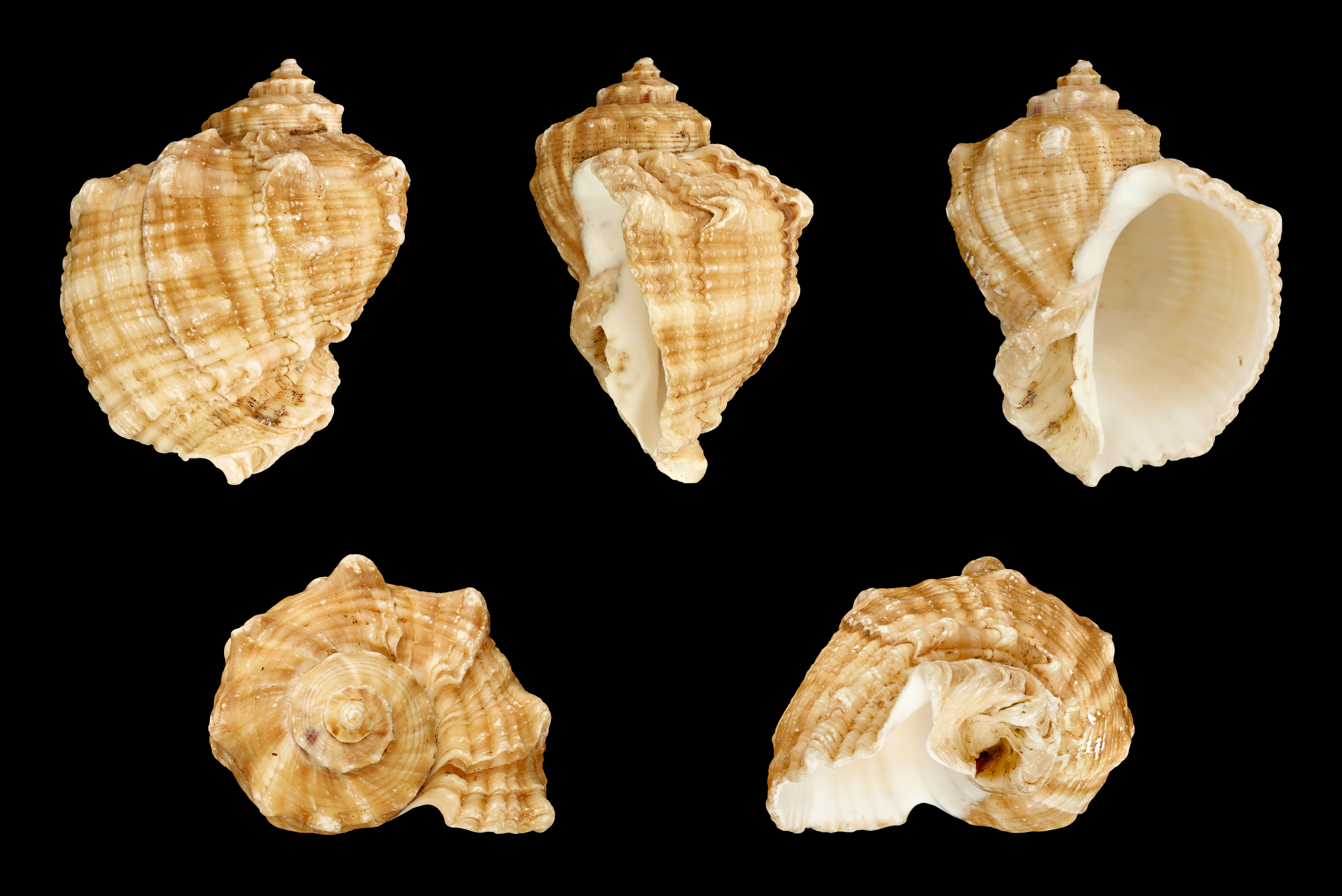 Bezoar Rapa Whelk; Length 6.4 cm; Originating from Japan; Shell of own collection, therefore not geocoded. Dorsal, lateral (right side), ventral, back, and front view.